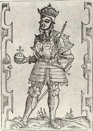 Sigismund II Augustus